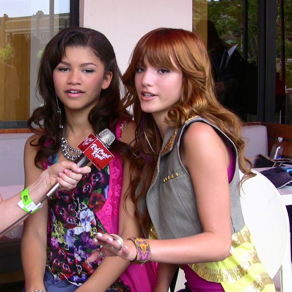 Bella Thorne and Zendaya at the "Make Your Mark: Ultimate Dance Off 'Shake It Up' edition